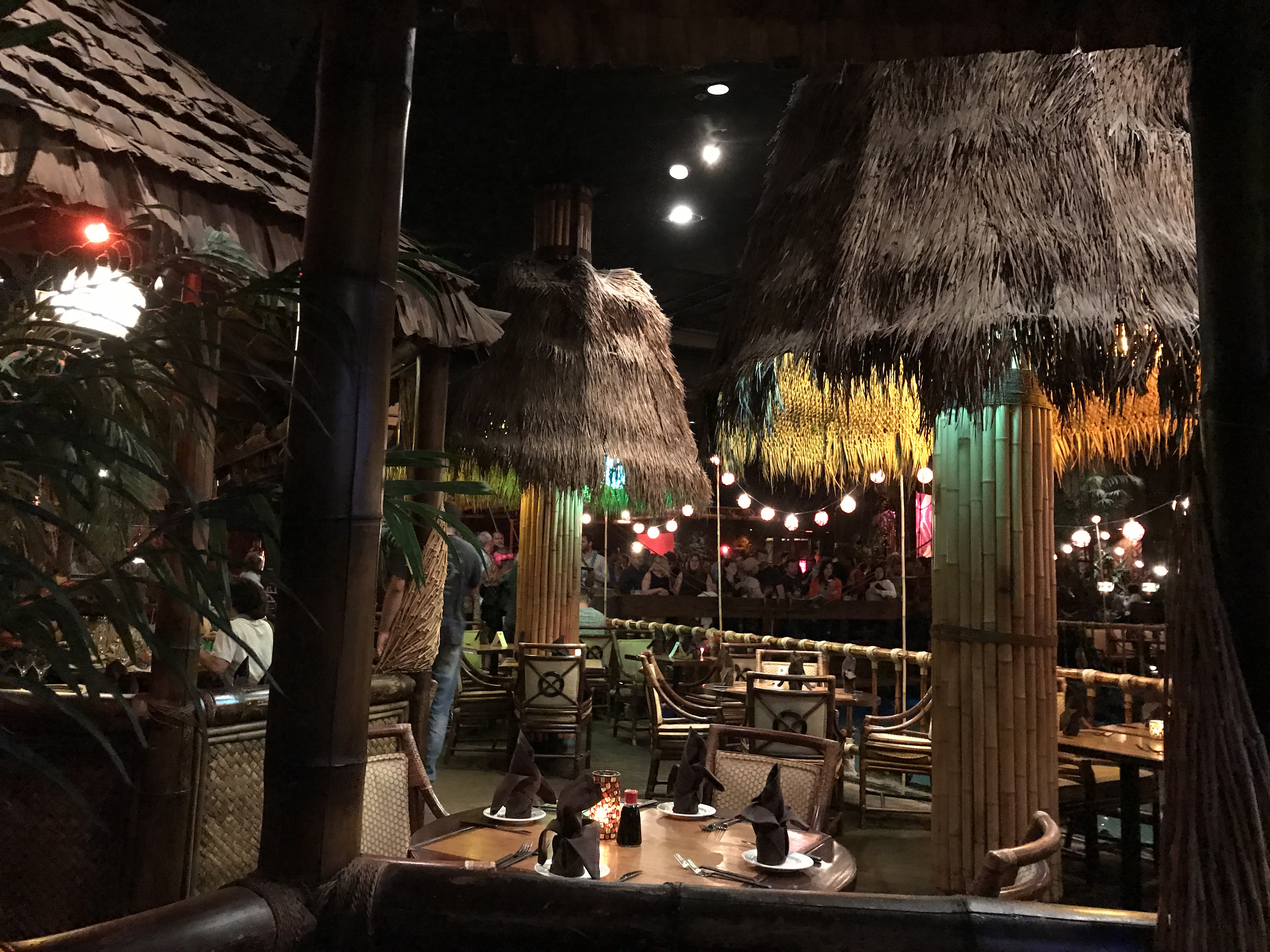 View from Tonga room towards hurricane bar